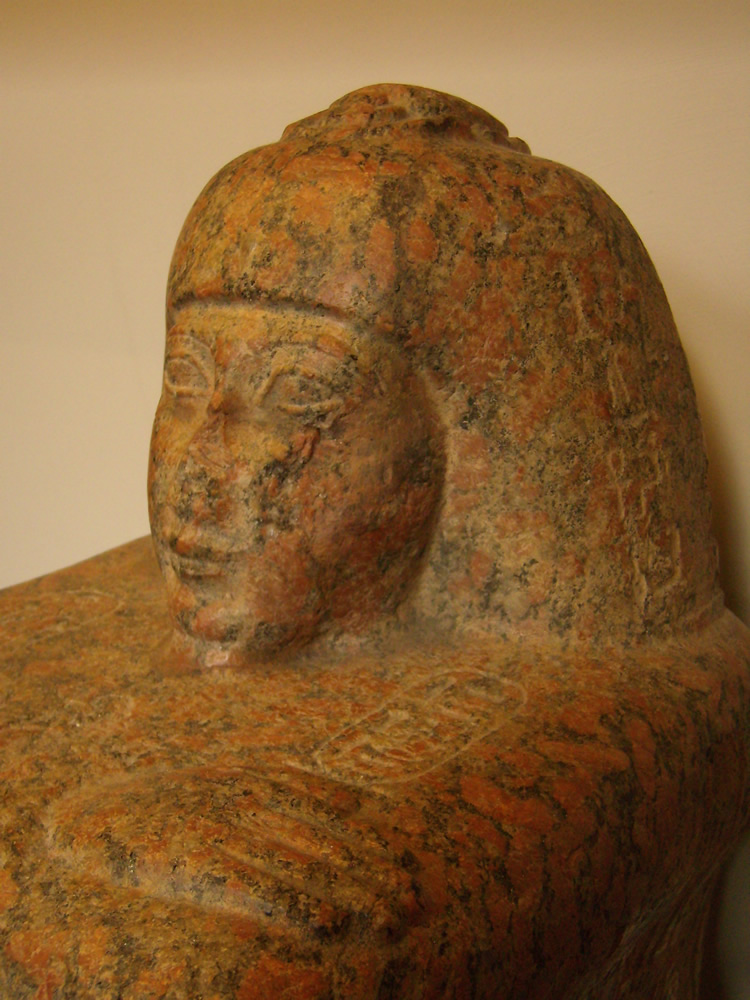 Statue of Anckkherednefer, Britisch Museum, BM 1007